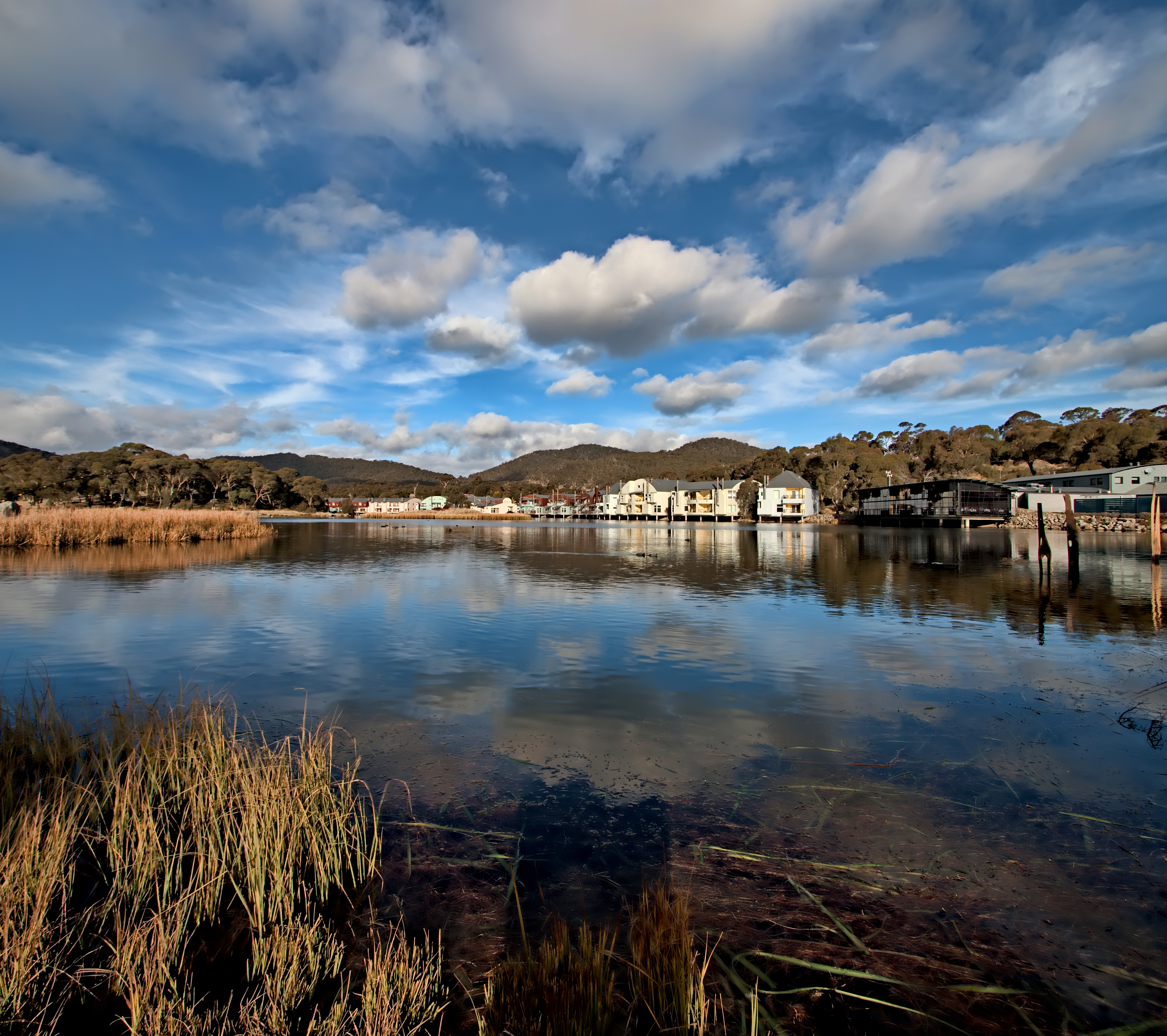 Lake Crackenback, Kosciuszko National Park, NSW, Australia View Large